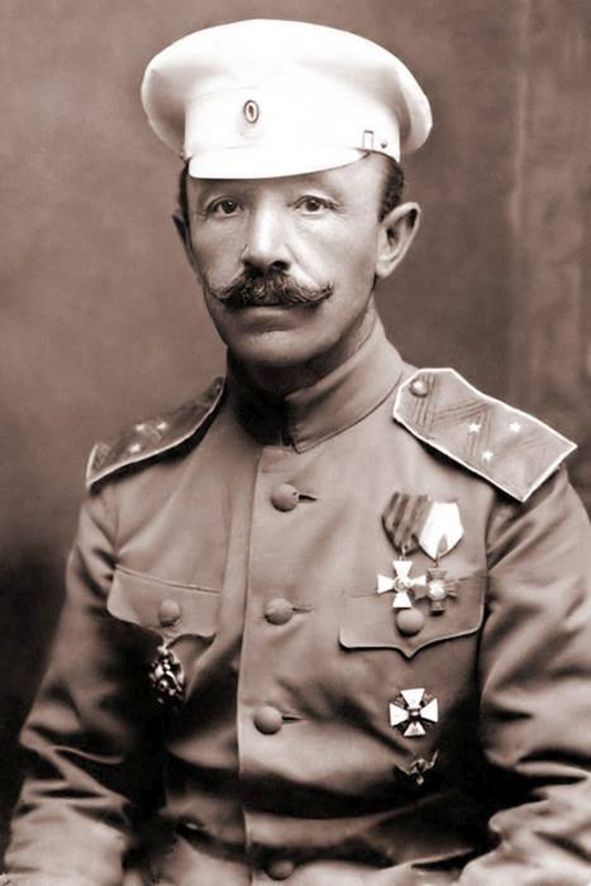 Barbovich, Ivan Gafrilovich